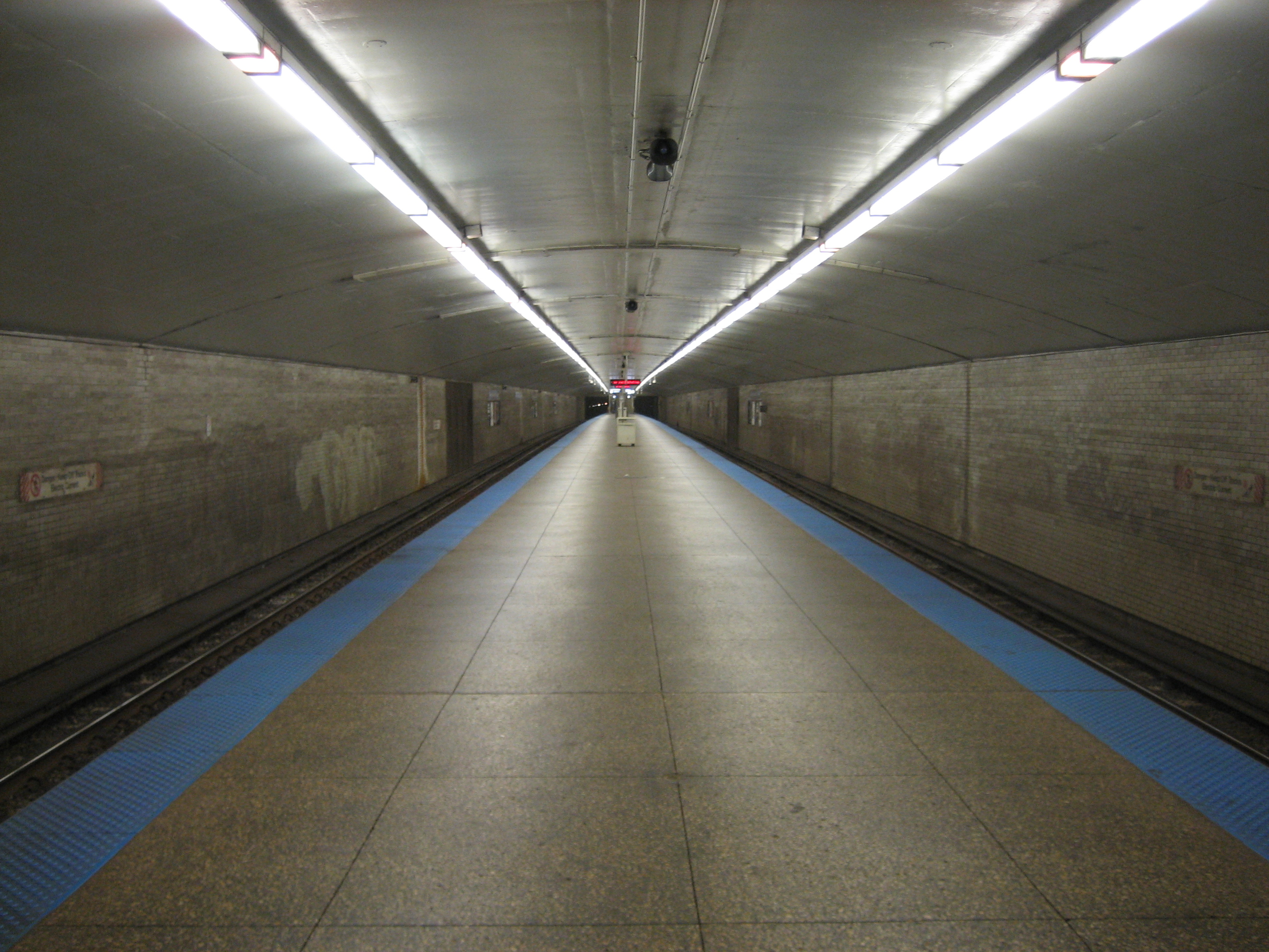 Logan Square Station on the CTA Blue Line.